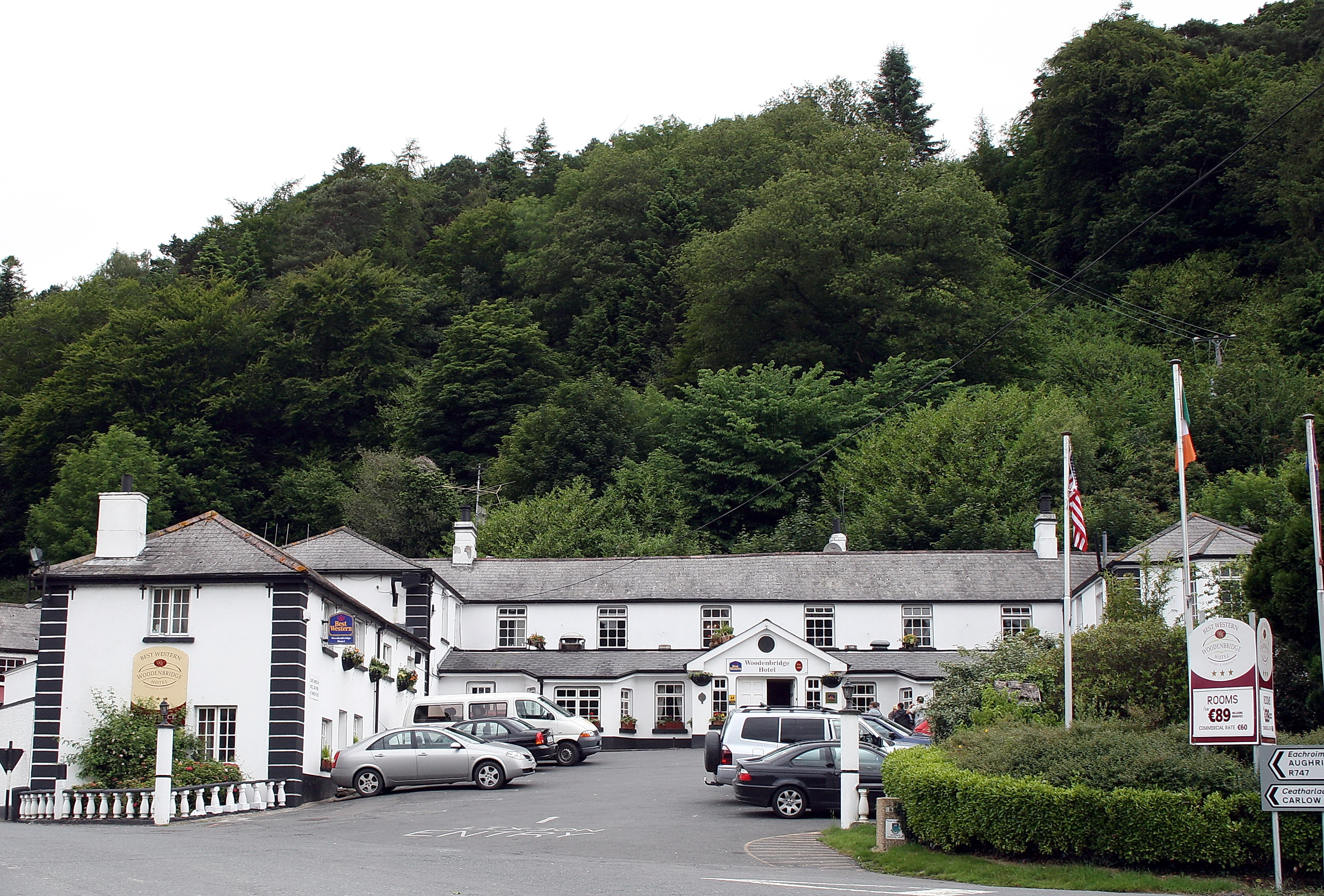 Hotel at Woodenbridge, County Wicklow, claimed to be the oldest still in business in Ireland (1608)